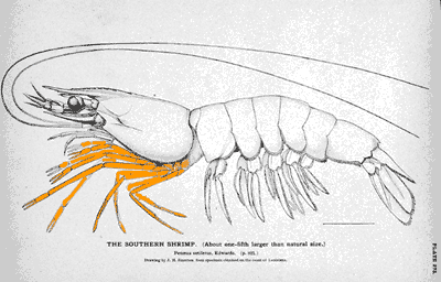 Diagram showing the pereiopods of a prawn Litopenaeus setiferus.